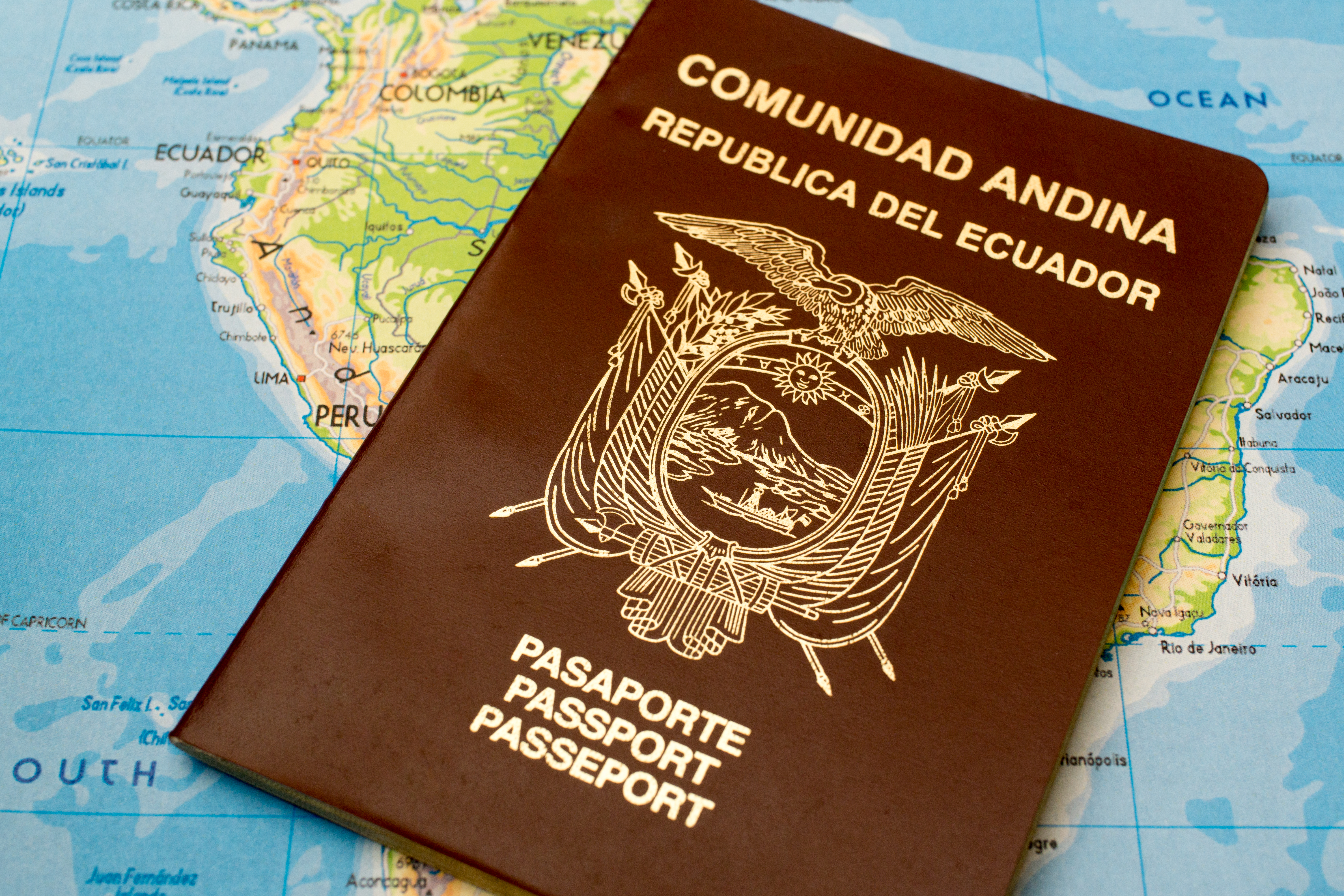 Ecuadorian Passport